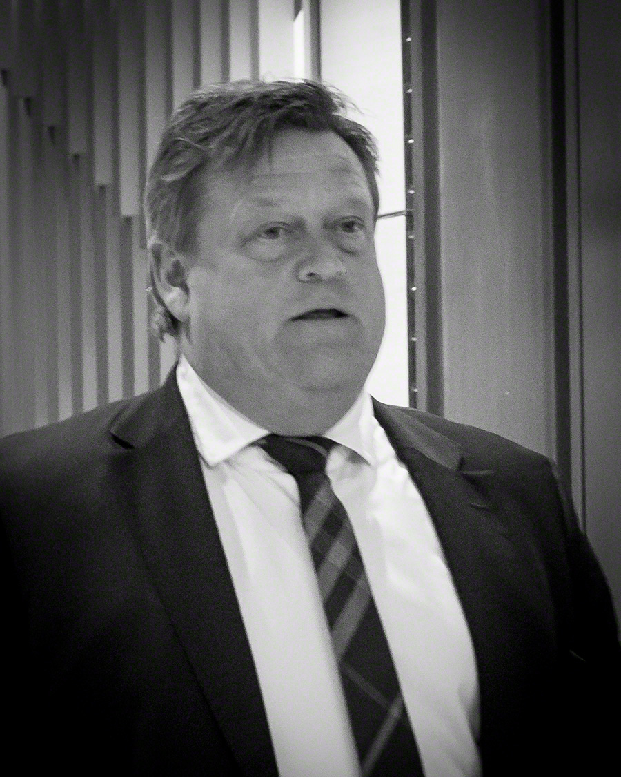 Harald Tom Nesvik at Governor Øystein Olsen's annual address in February 2016